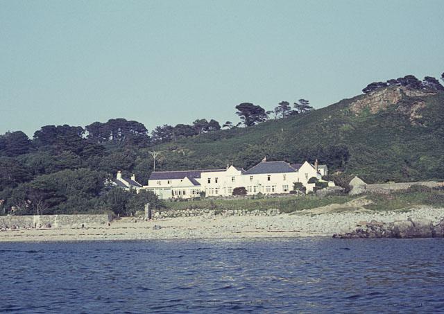 White House Hotel, Herm 1968